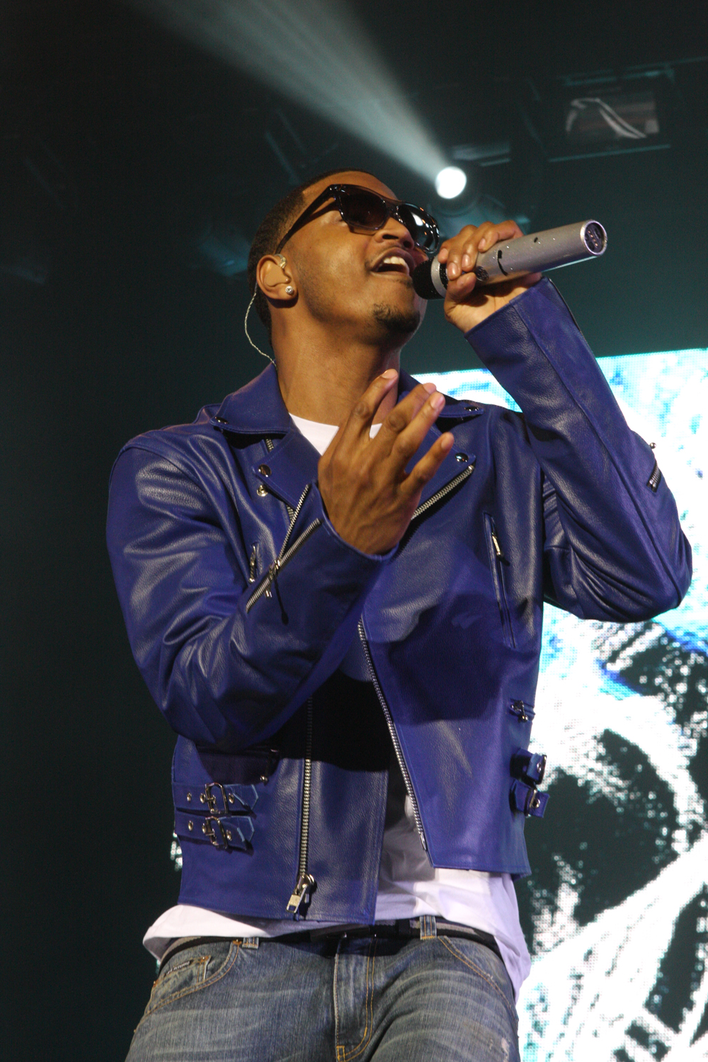 Trey Songz at Supafest 2012, at ANZ Stadium at Homebush, Sydney, Australia.